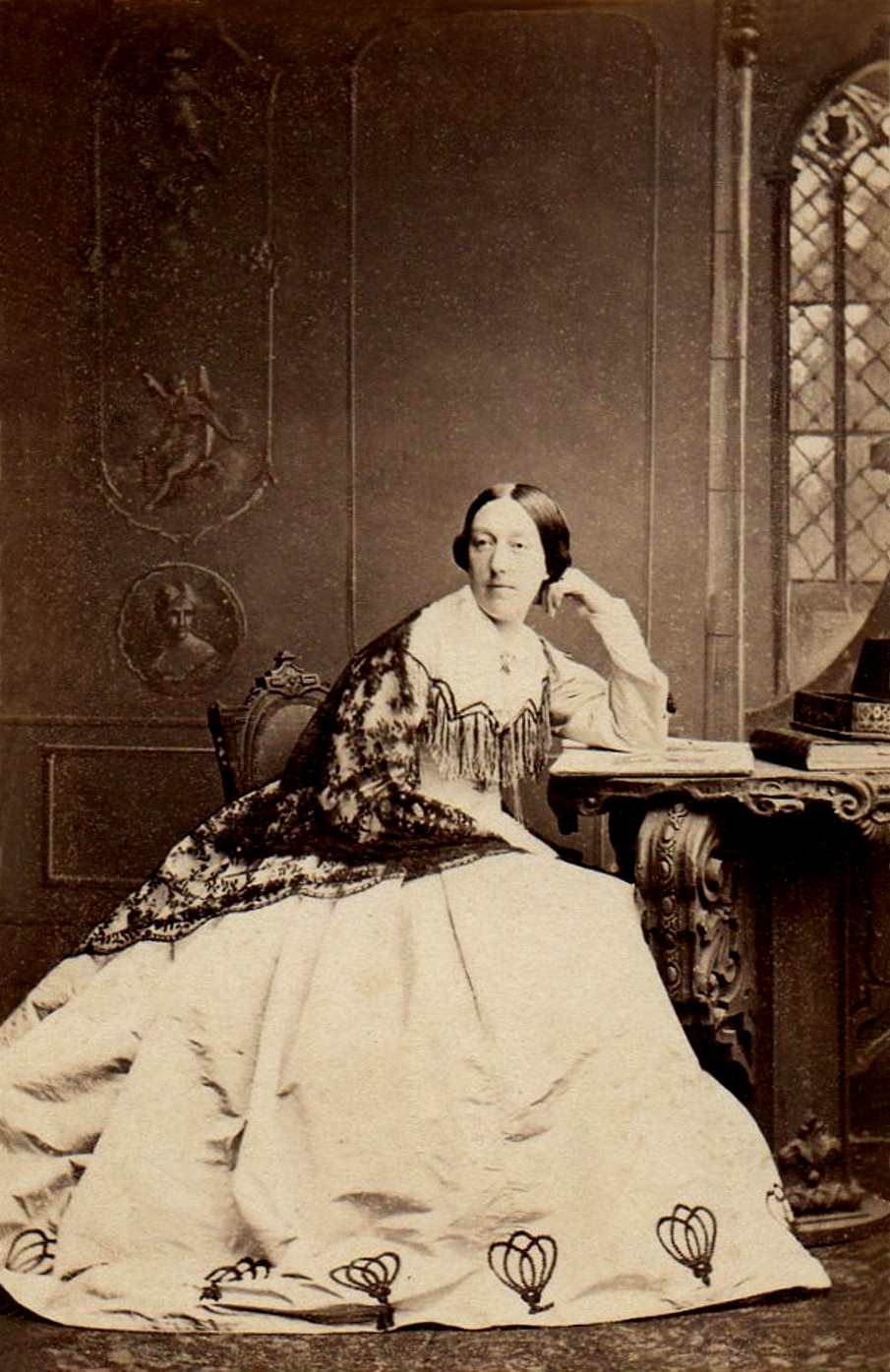 Totleben Viktorina Leontievna (Elizabeth Louise Victorina, nee Baroness von Hauff, 1833—1907 — wife of Count E. I. Totleben